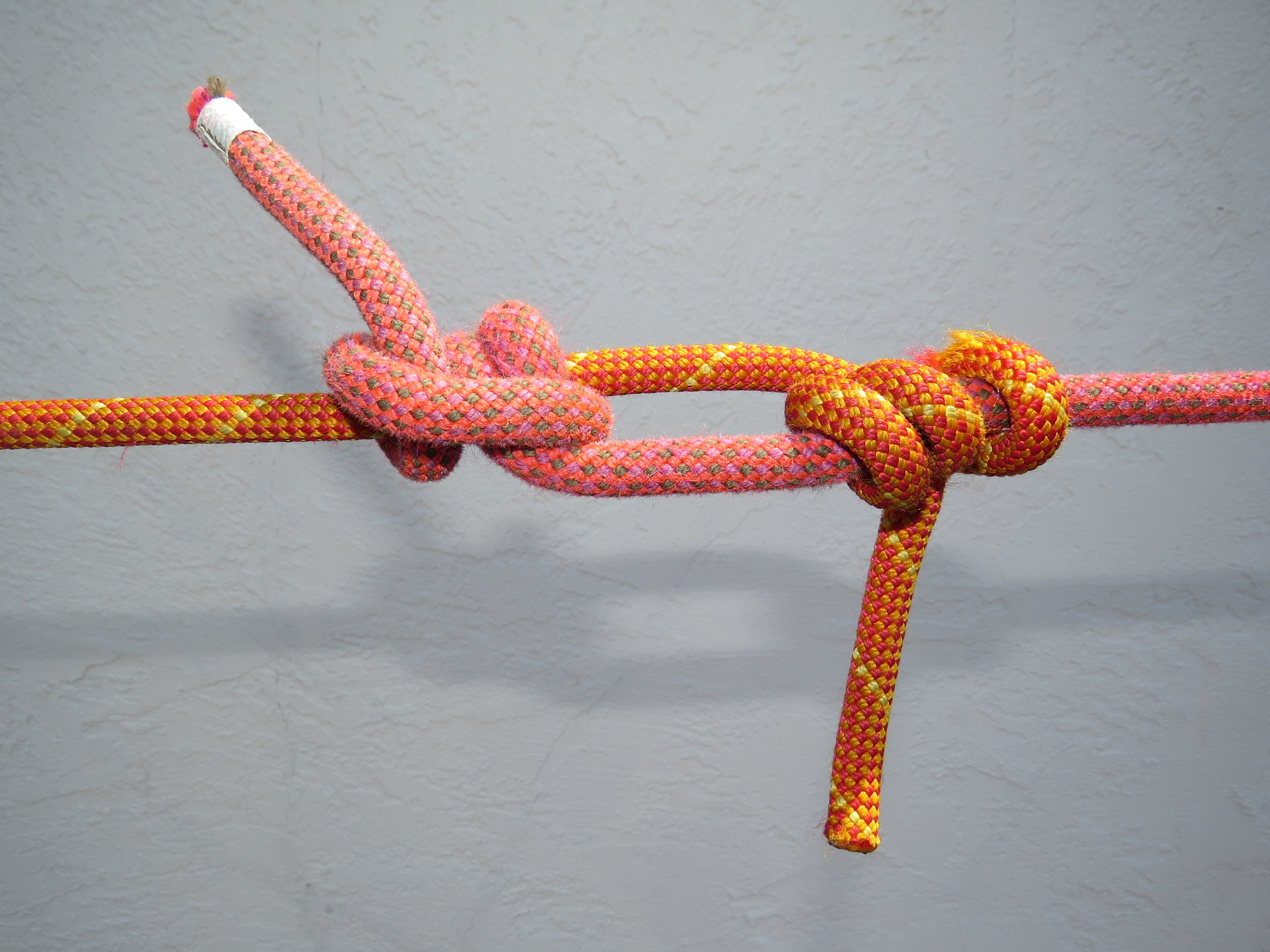 Tensionless hitch